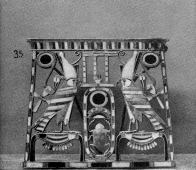 Jewels of five princesses of the XIIth Dynasty (c. 2400 B.C.), the result of the excavations of J. de Morgan at Dāhshur in 1894-1895: Gold pectoral worked à jour (with the interstices left open); on the front side it is inlaid with coloured stones, the fine cloisons being the only portion of the gold that is visible; on the back, the gold surfaces are most delicately carved, in low relief.